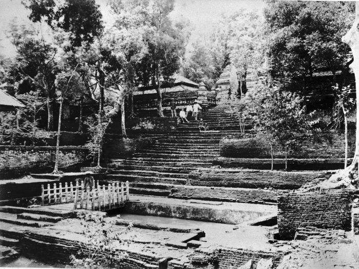 (not direct translation of Nl text) - the pool, and entrance steps below the main entrance (known as the Supit Urang) to the Sultan Agungan section of the Royal Graveyard of Imogiri - this image was often reproduced in Indonesian publications in the 1950's and 1970's - the Surakartan graves are in sections to the left of this photograph - the Yogyakartan sections are to the right)